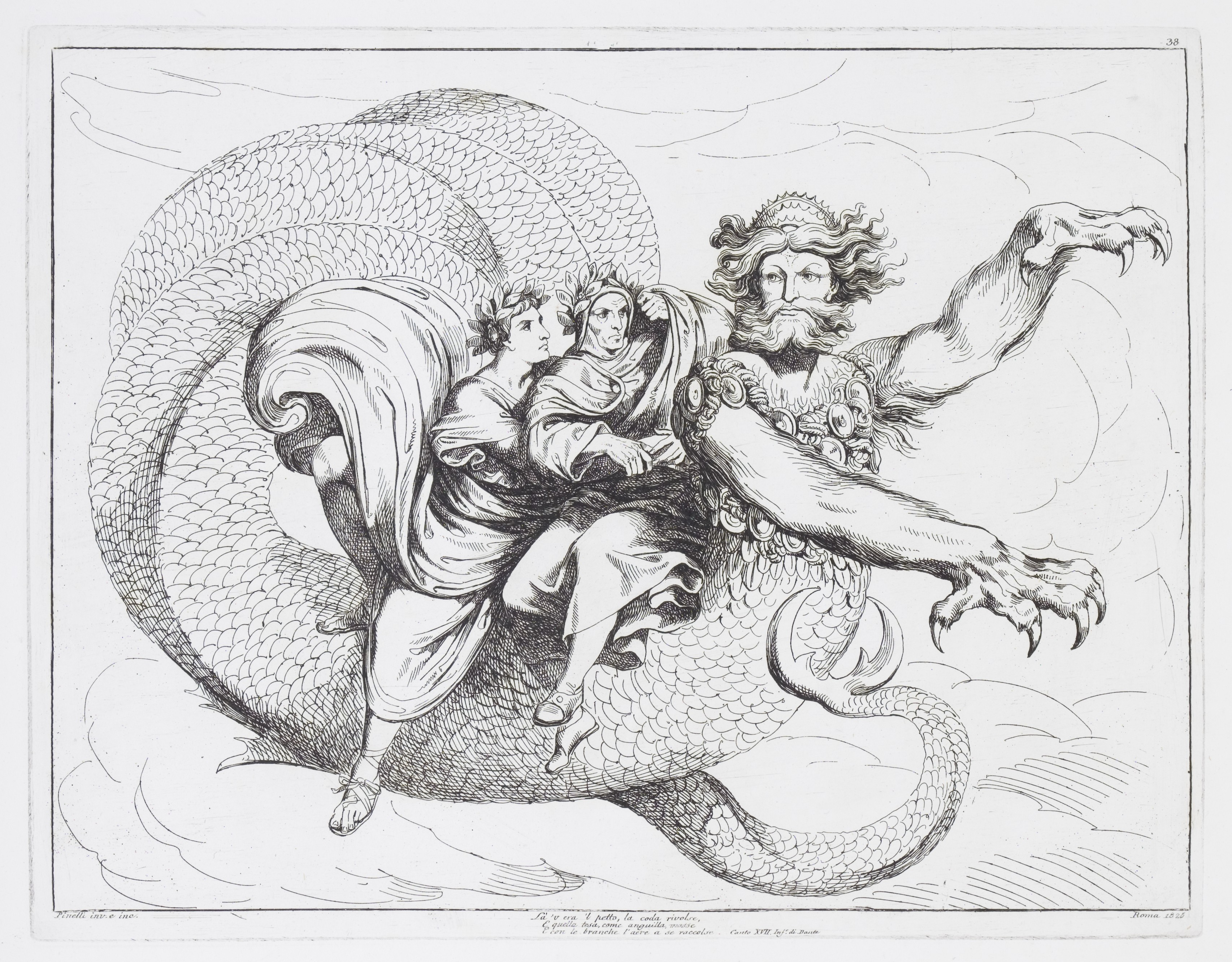 Virgil and Dante sitting on the back of Geryon to be transported from the 8th to the 7th circle of Hell. Iconographic Collections Keywords: Dante Alighieri,; name; Bartolomeo Pinelli